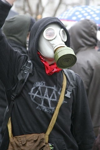 A protestor wearing a gas mask demonstrates in front of the White House in Washington, D.C. during the We Can't Wait Protest.